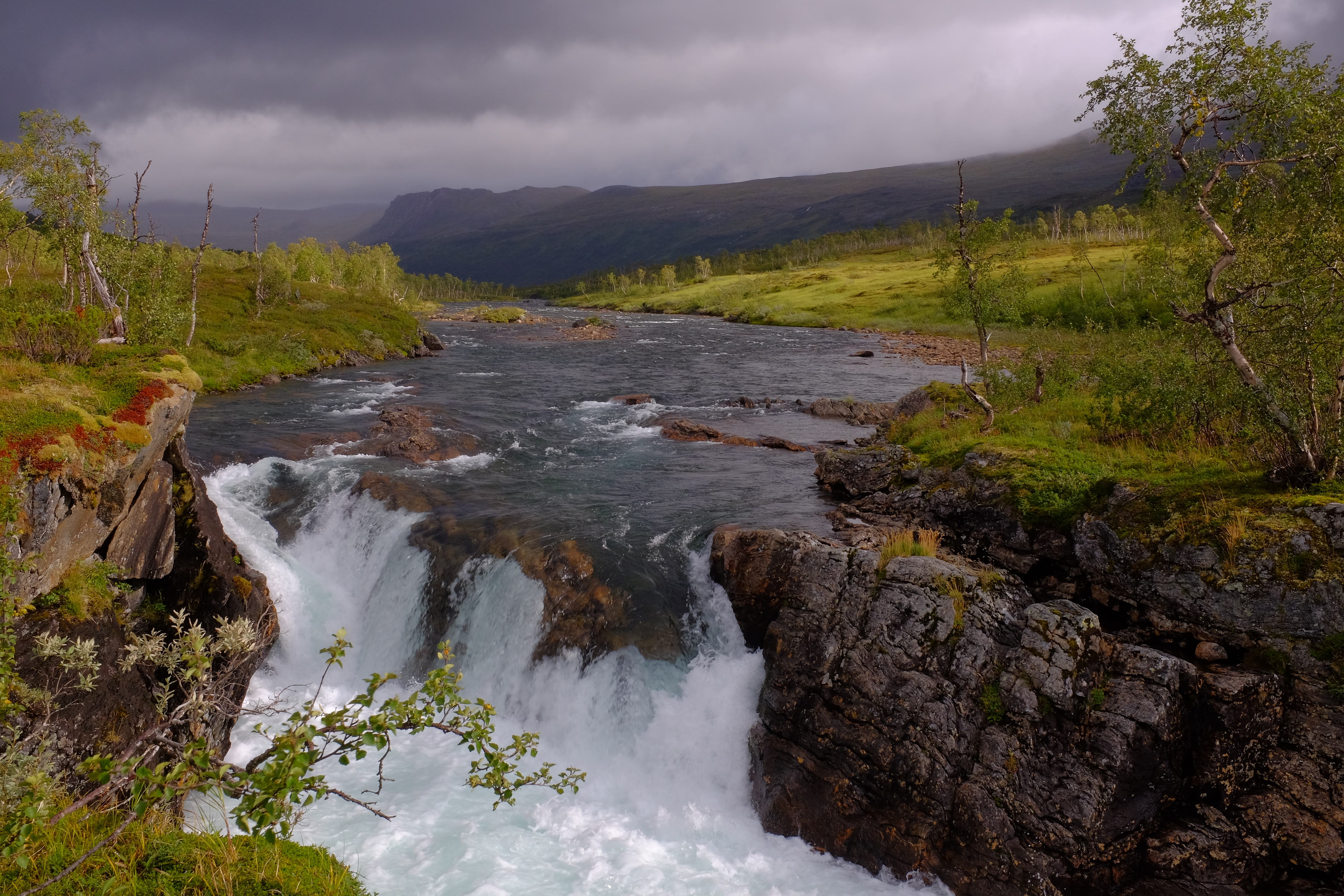 Small waterfall in Bjøllåelva river some rain showers in north of Bjøllådalen valley, Rana, Nordland, Norway.